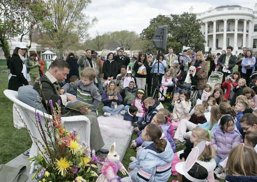 Actor Stephen Baldwin asks a little reader for some help as he reads the children's book, "The Jolly Postman," by Alan Alhberg Monday, April 9, 2007, on the South Lawn during the 2007 White House Easter Egg Roll.